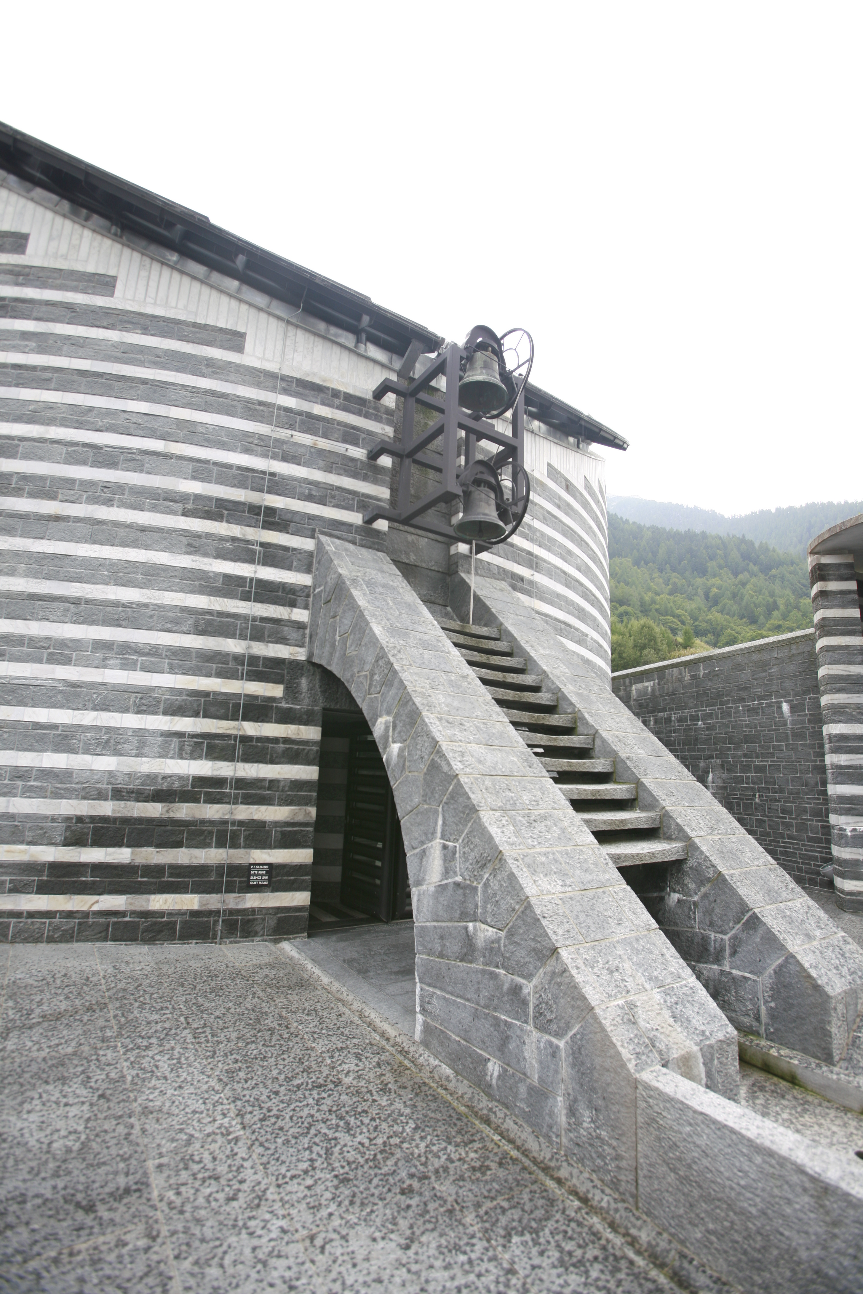 Church of St John the Baptism in Mogno, by Mario Botta